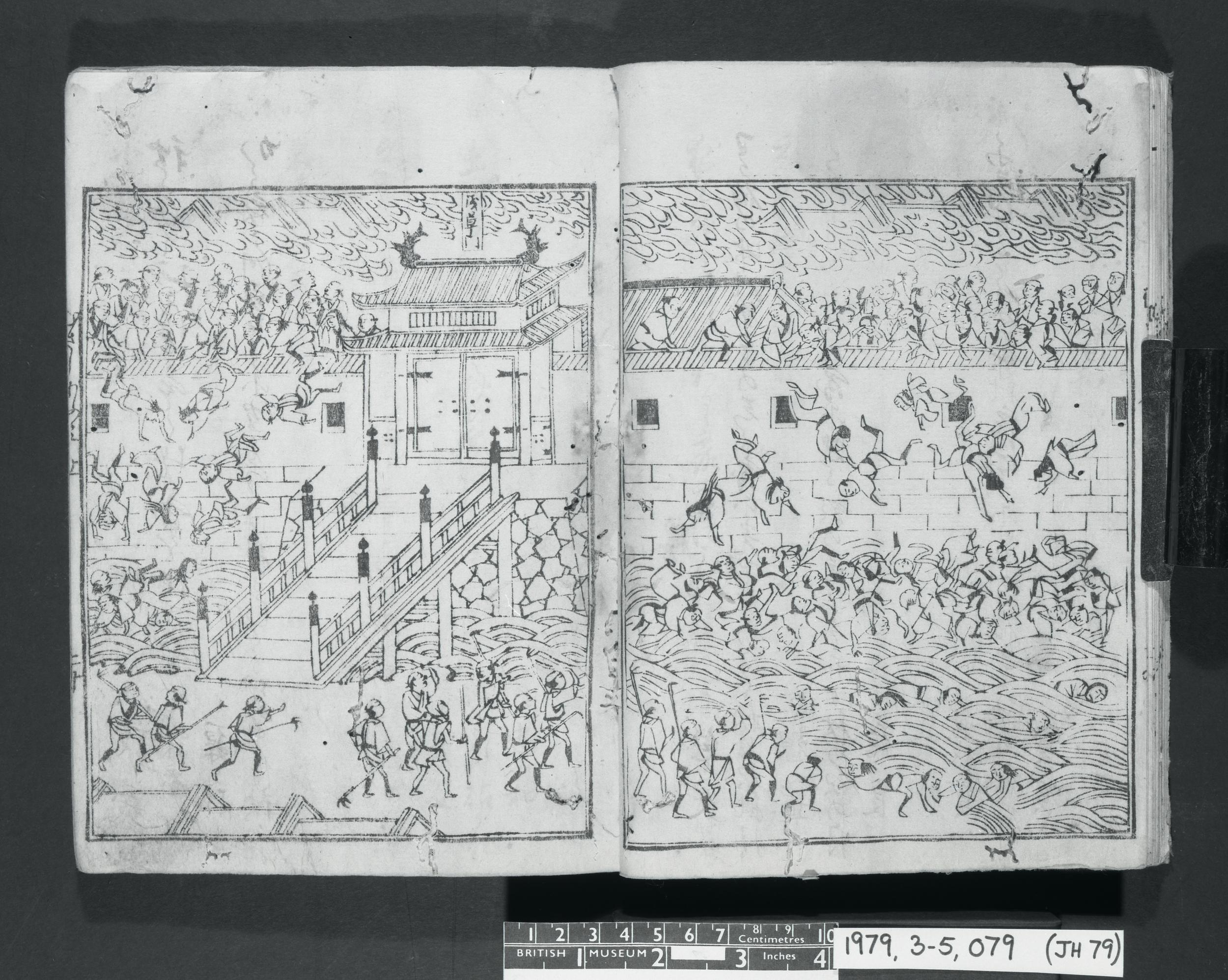 Great Fire of Meireki (明暦の大火) from the Musashiabumi (むさしあぶみ)